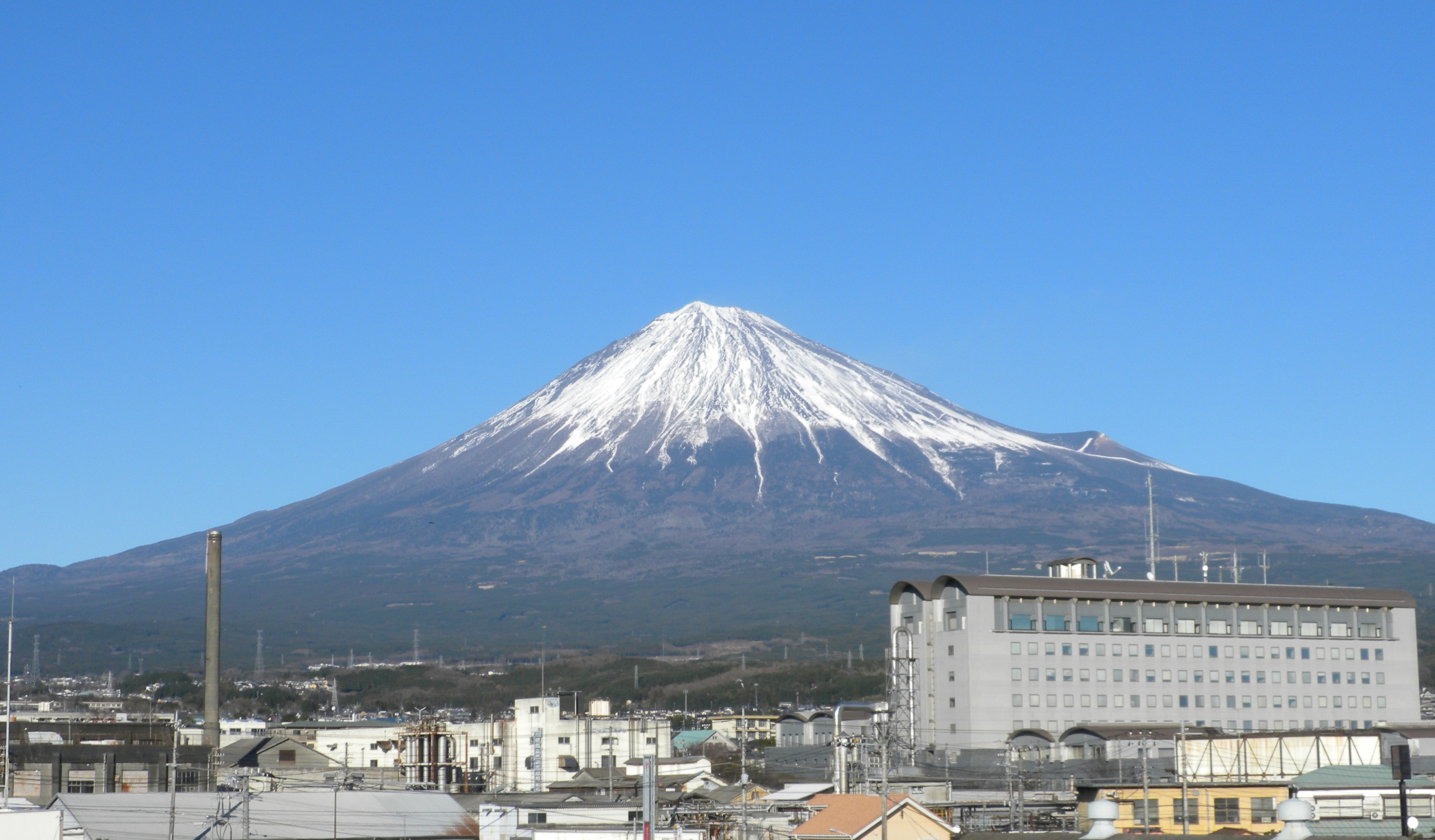 Mount Fuji and Fujinomiya City Office